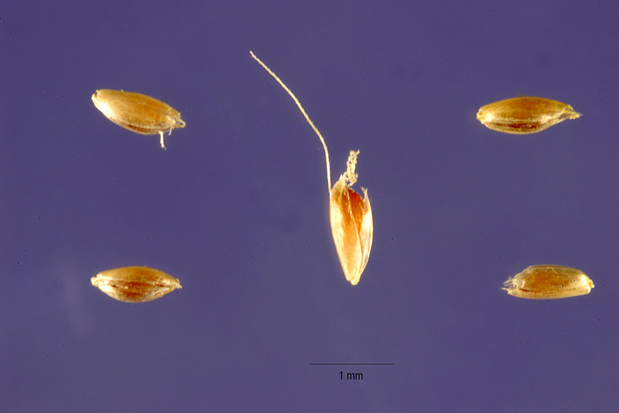 Seeds of Polypogon fugax